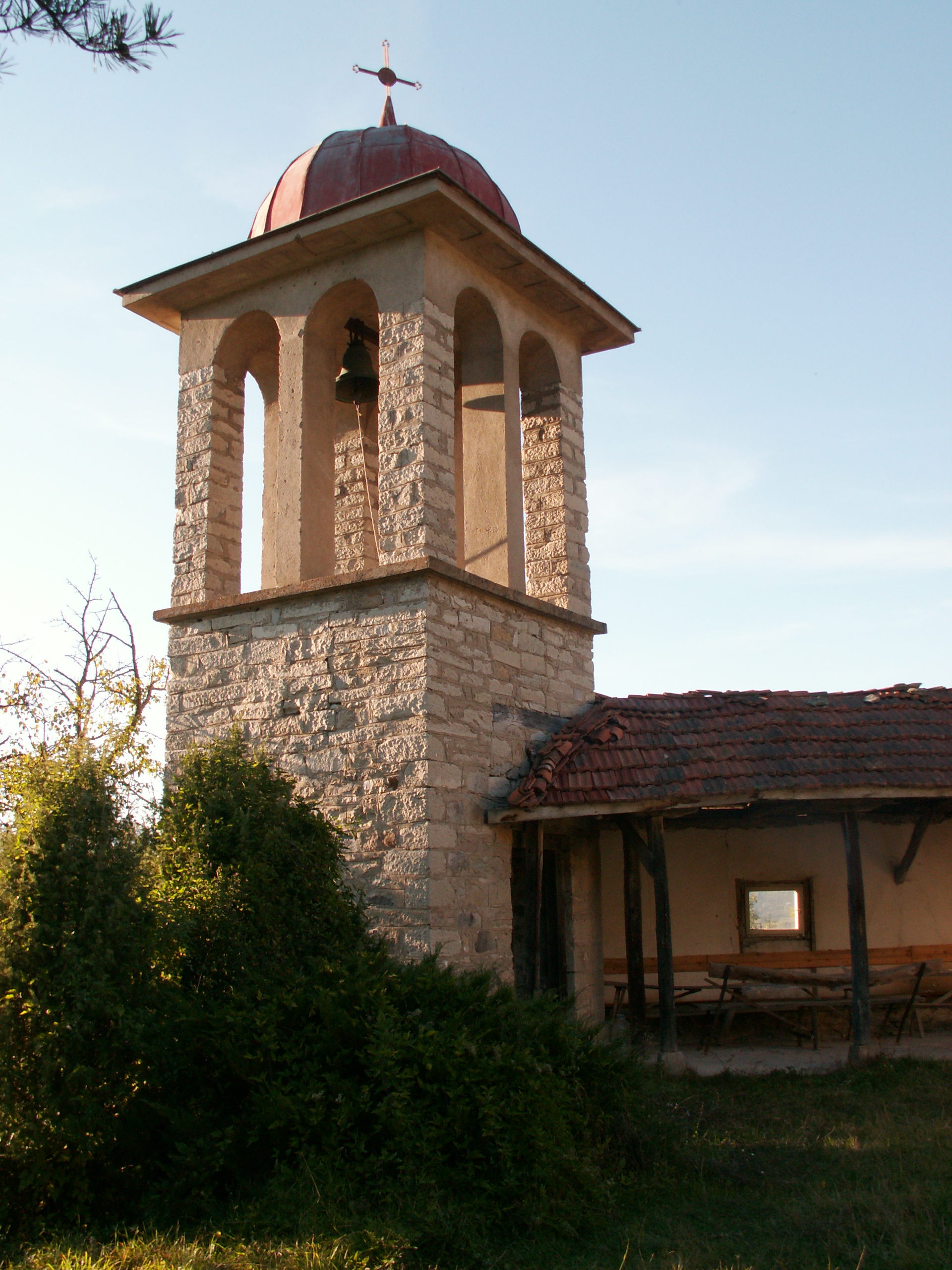 Church in Yarlovtsi, Bulgaria.